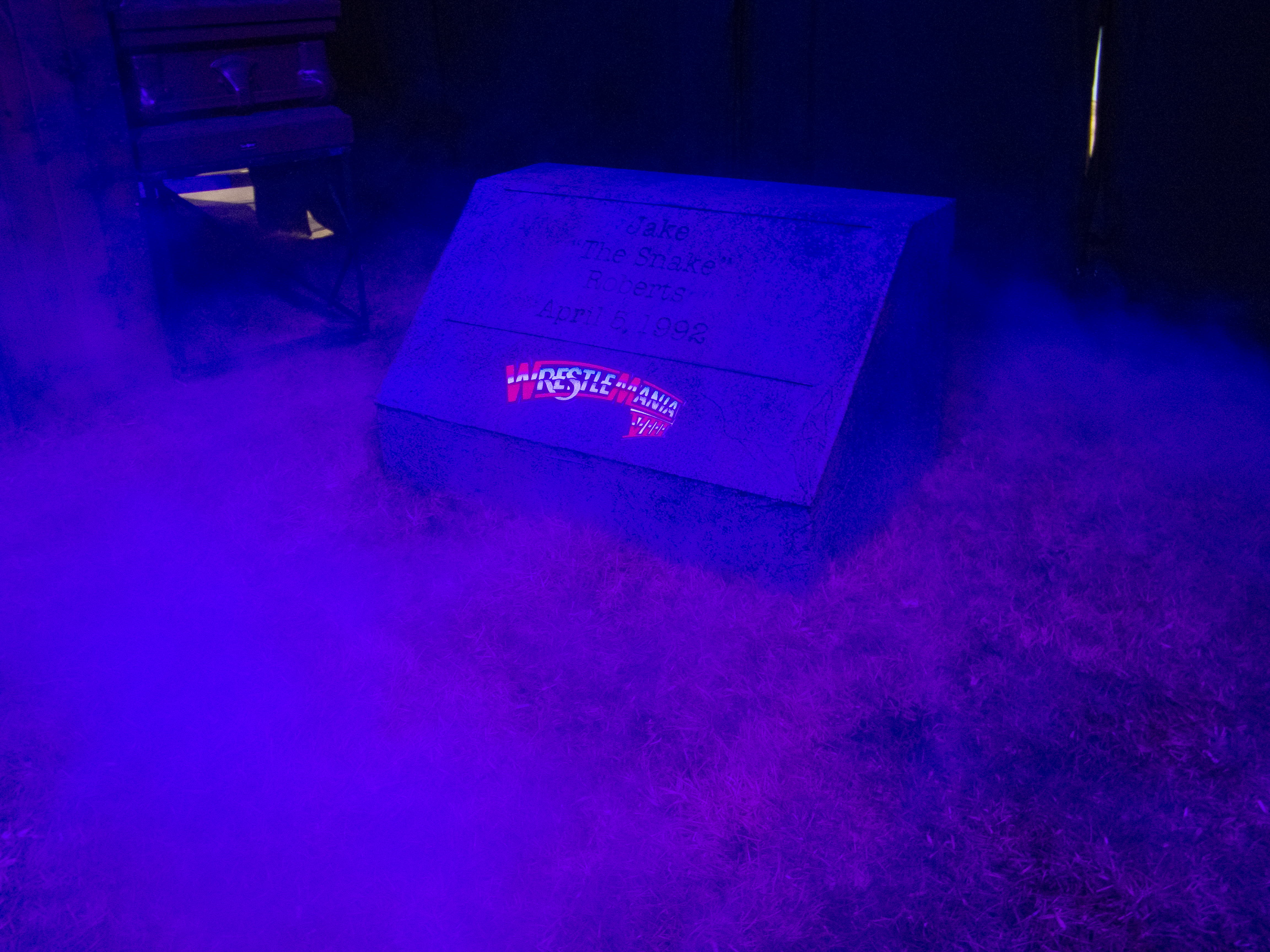 The Undertaker's Graveyard @ Axxess